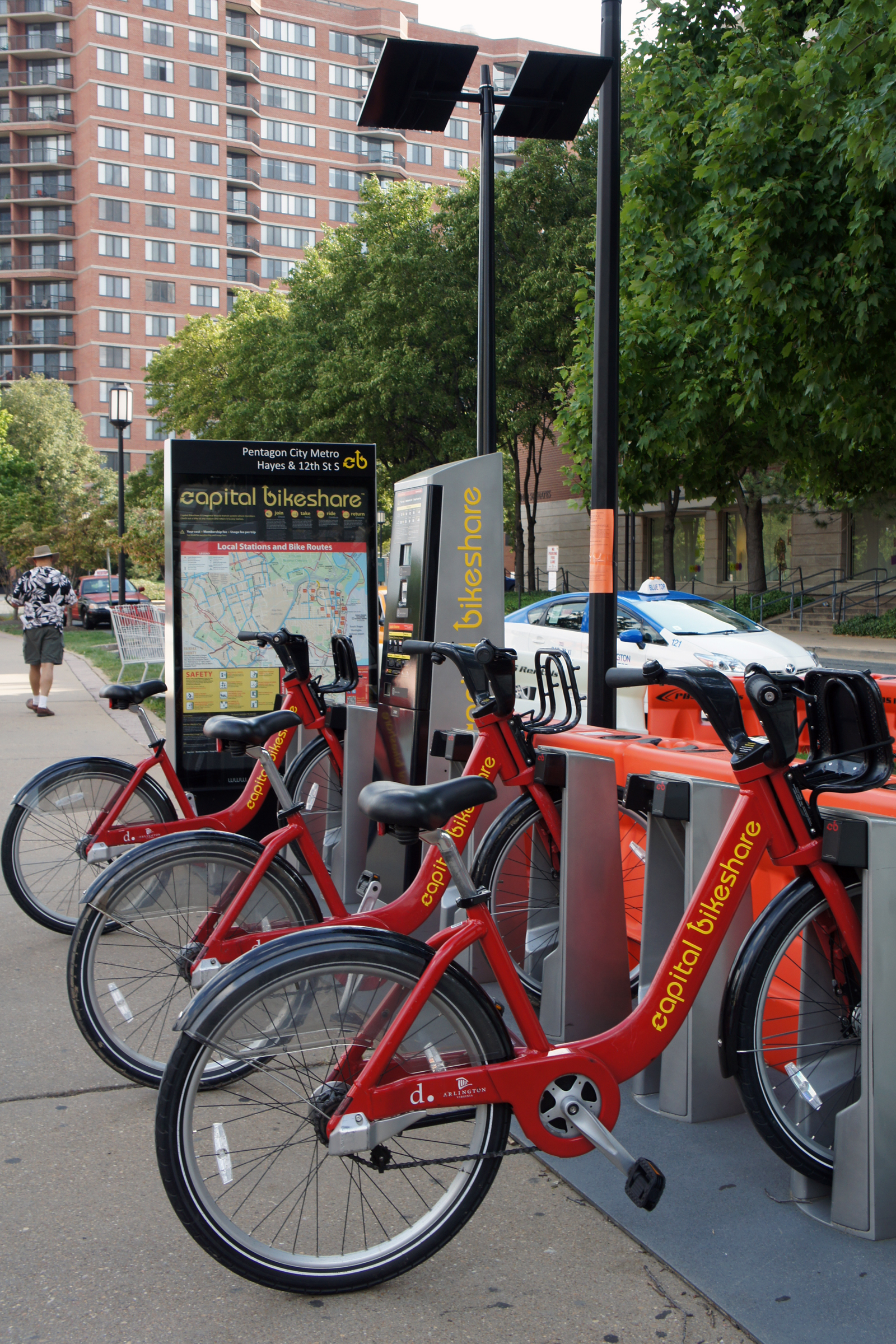 Capital Bikeshare station at Pentagon City, Arlington, VA